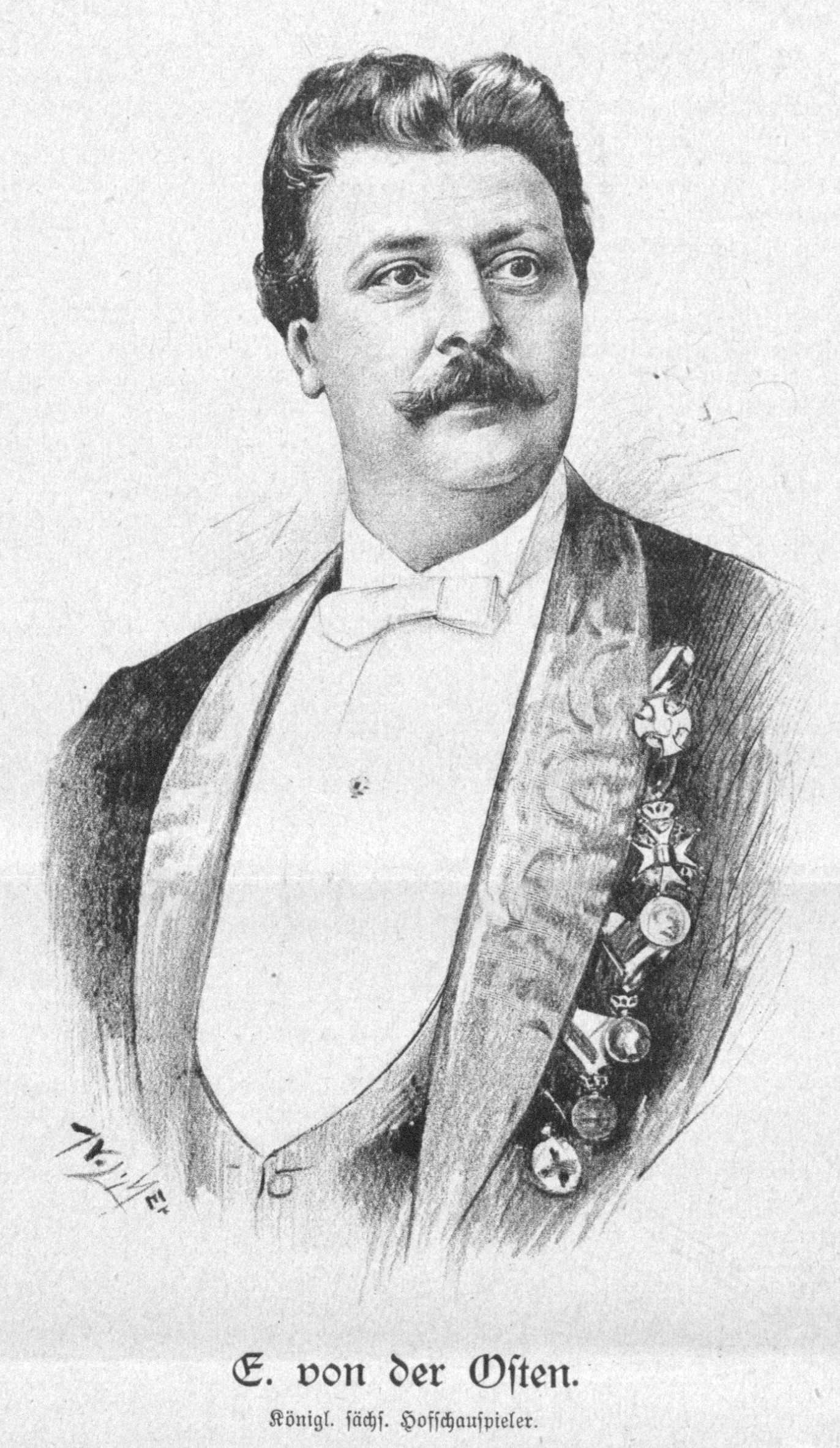 Portrait of Emil von der Osten (1847-1905), German actor.